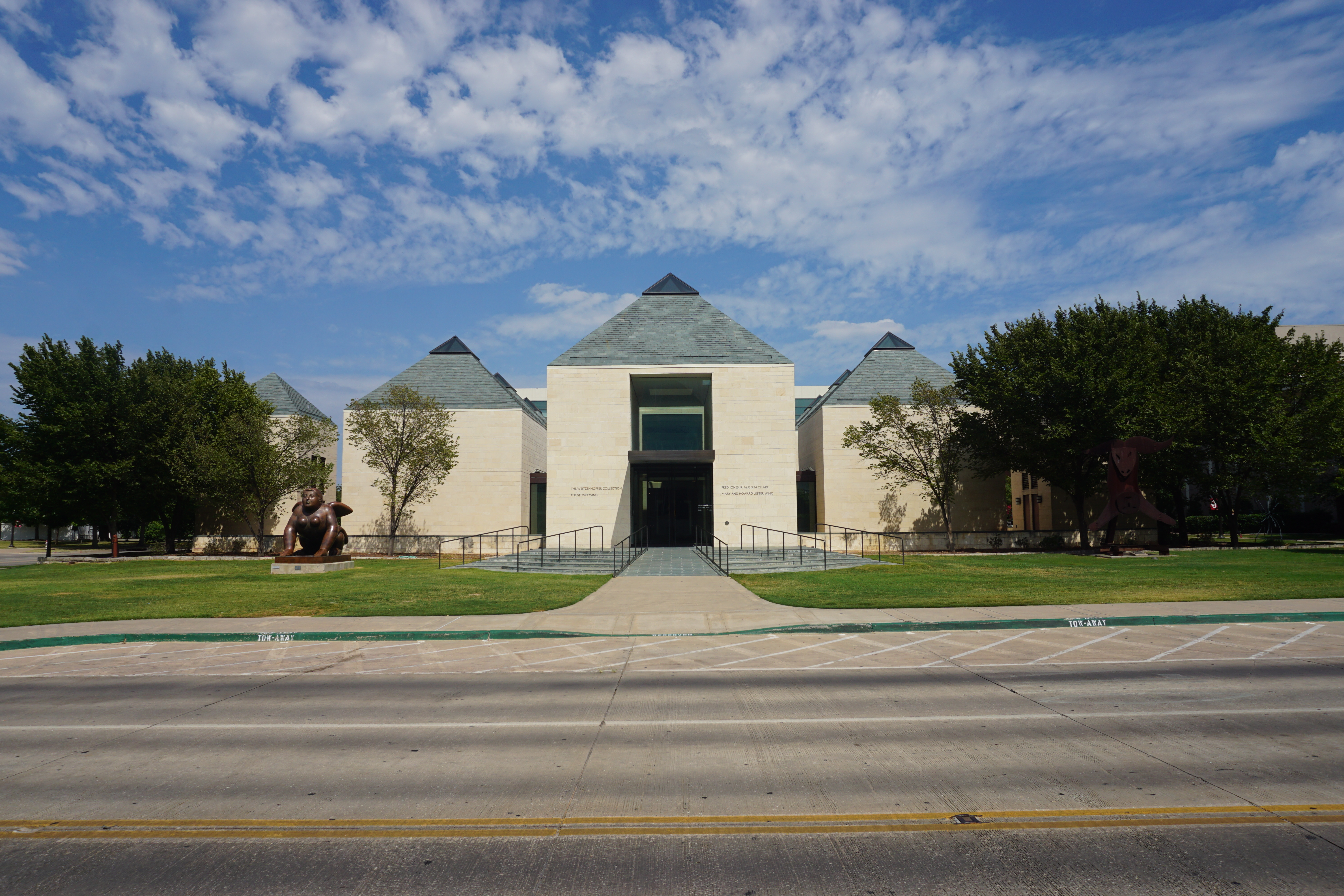 The Fred Jones Jr. Museum of Art on the campus of the University of Oklahoma in Norman, Oklahoma (United States).